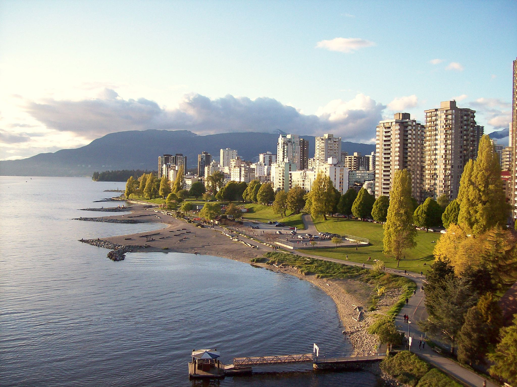 The following is the author's description of the photograph quoted directly from the photograph's Flickr page. " Taken this evening from the Burrard Street Bridge "